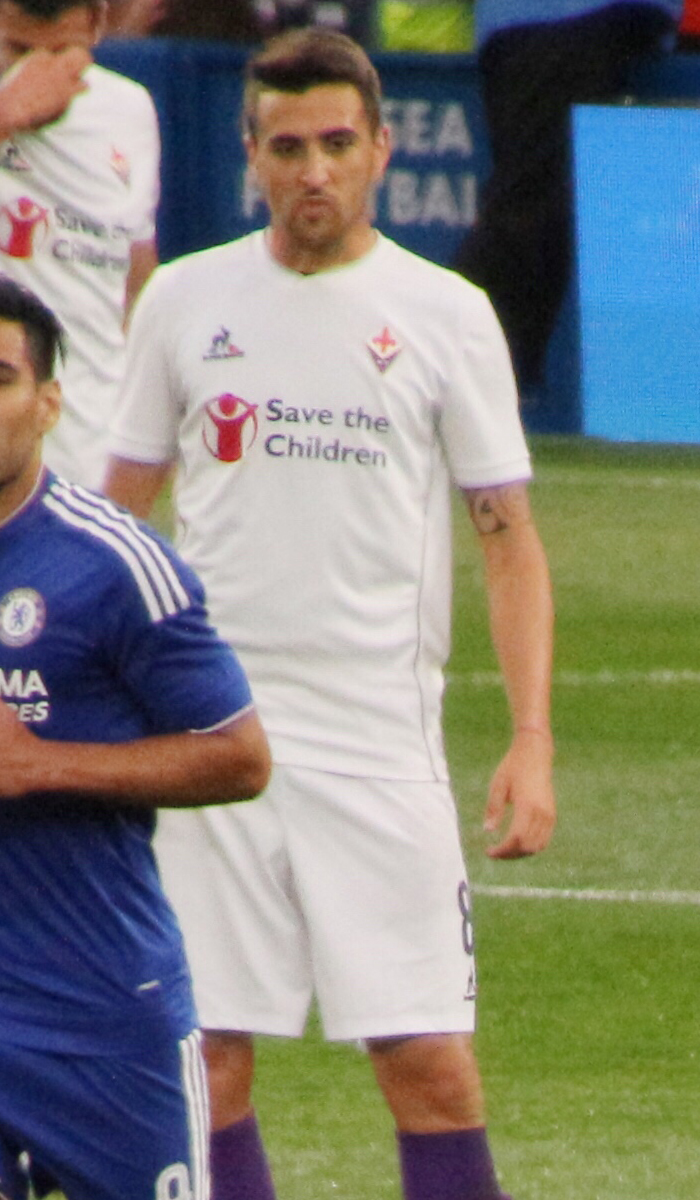 Matias Vecino is a Uruguayan footballer who plays for Italian side Fiorentina.